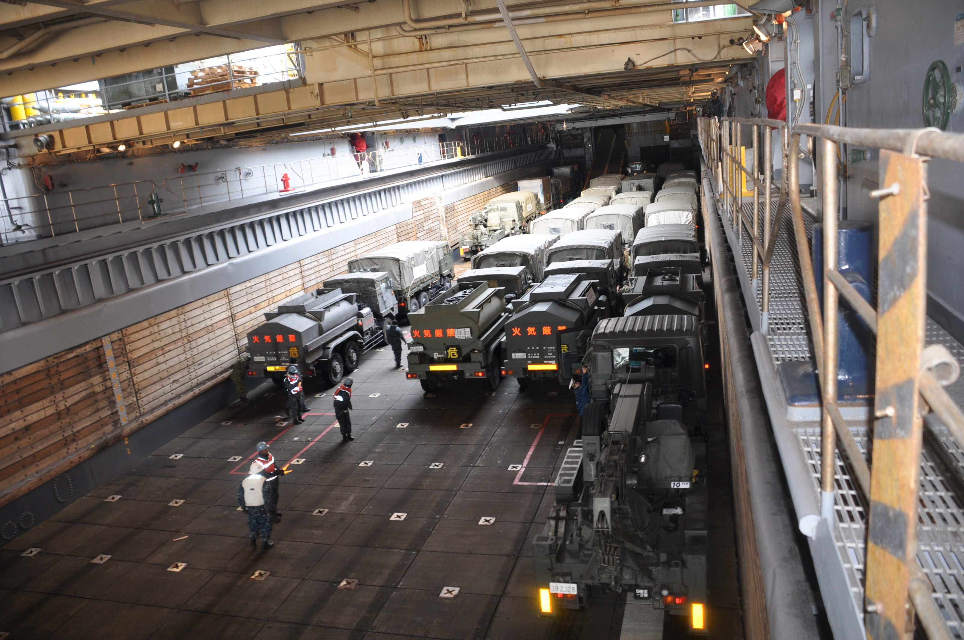 TOMOKAMAI KO, Japan (March 16, 2011) Japan Ground Self-Defense Force vehicles line the well deck of the amphibious dock landing ship USS Tortuga (LSD 46). Tortuga is transporting the equipment to support Operation Tomodachi, a humanitarian assistance mission in the aftermath of a 9.0 magnitude earthquake and subsequent tsunami. (U.S. Navy photo by Mass Communication Specialist Seaman Scott Bourque/Released)